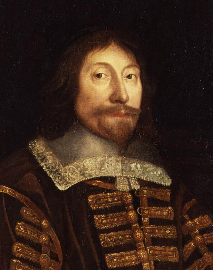 cropped image